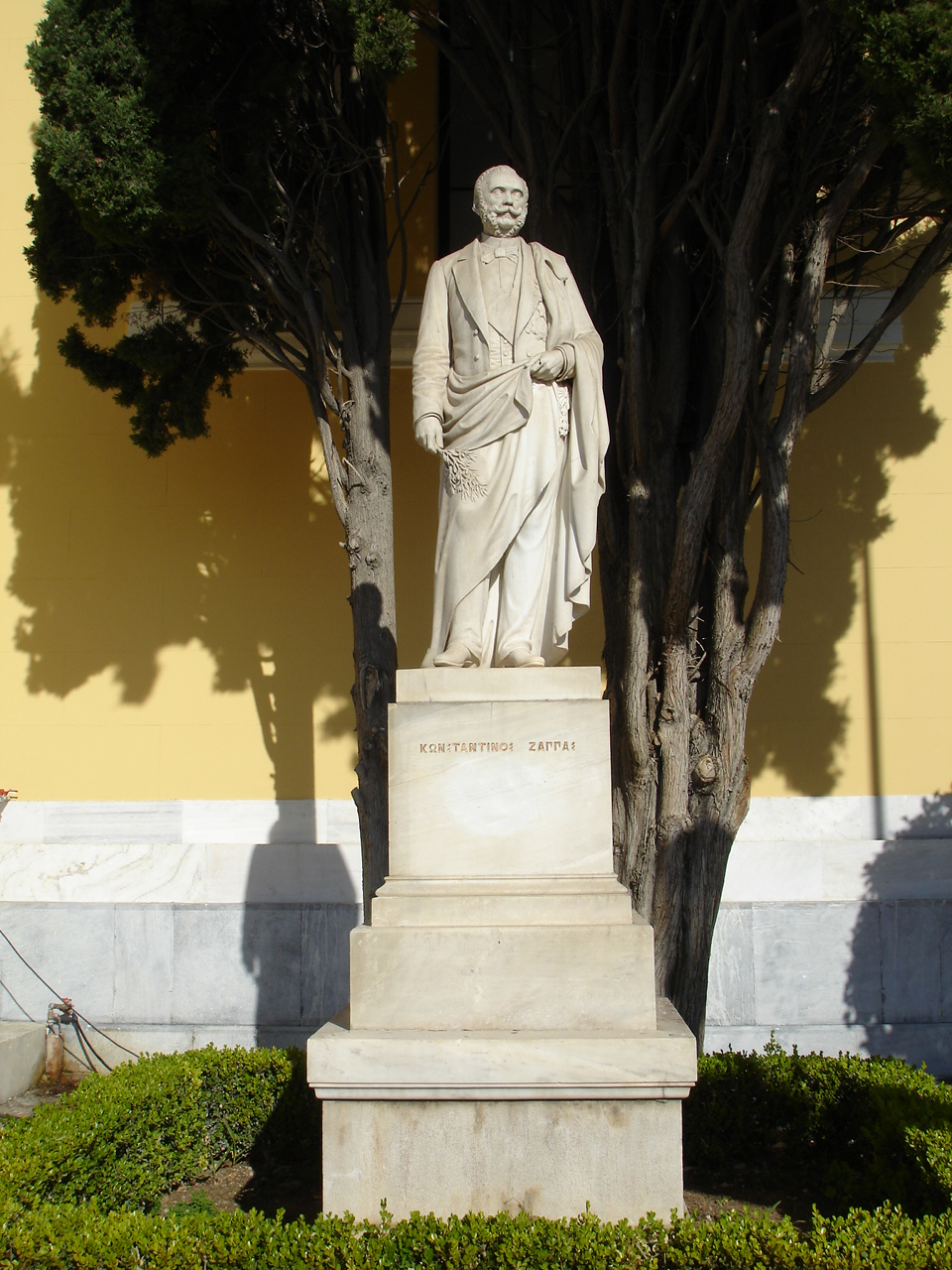 Statue of Constantinos Zappas, one of the Zappas brothers, outside of Zappeion Megaron, which they donated to the greek state.